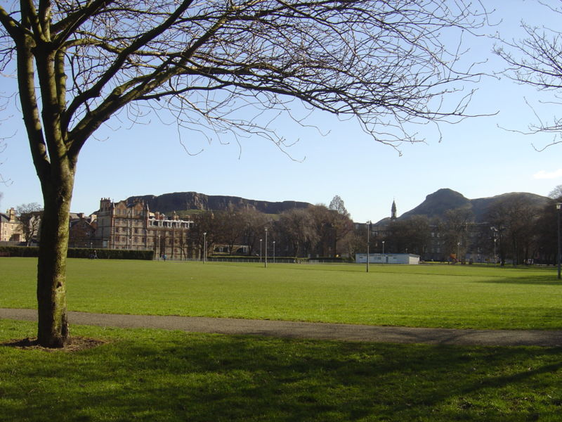 The Meadows - large public park in Edinburgh, Scotland.